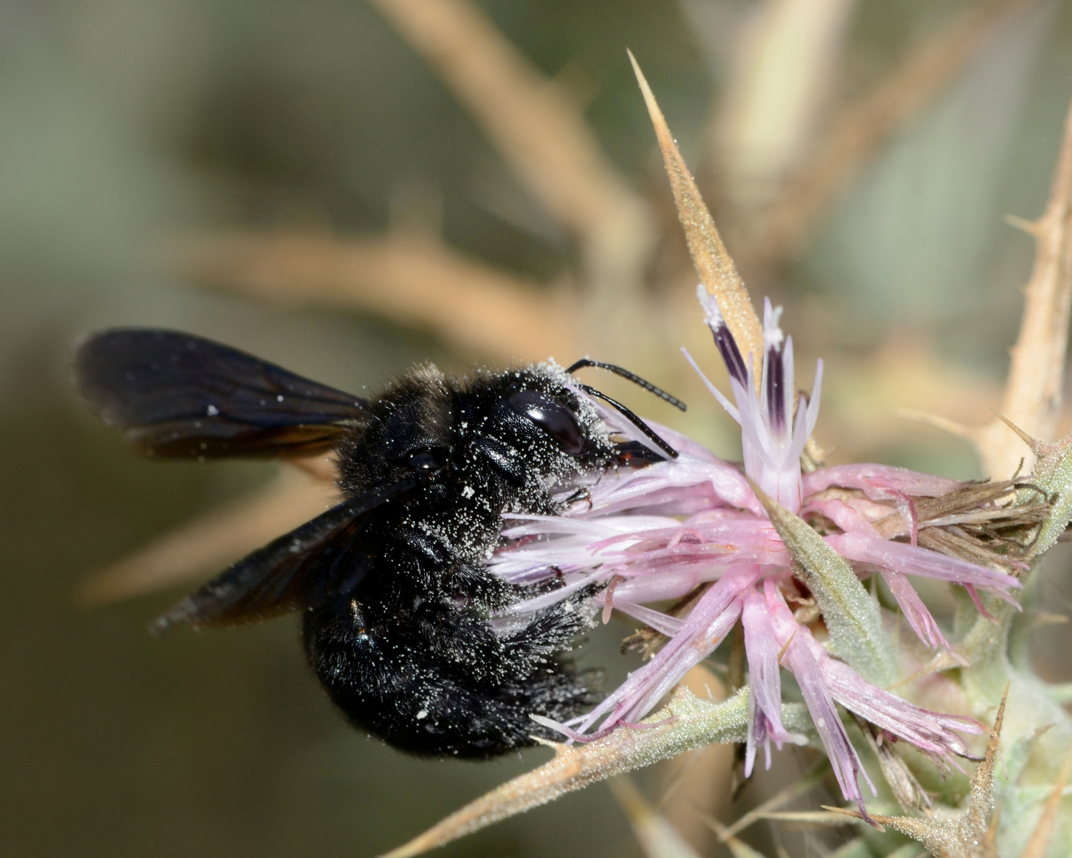 Xylocopa iris iris, male collecting nectar from Carthamus tenuis, Mount Carmel, Israel, August 13, 2012.